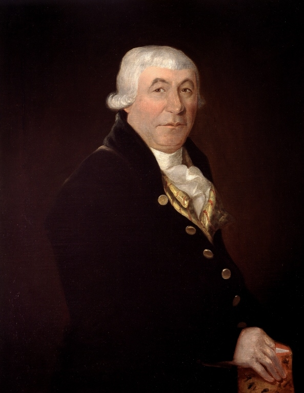 Portrait of James McGill (1744-1813)